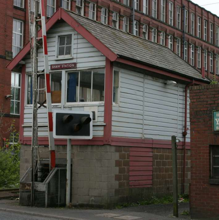 An image of the signal cabin at Shaw and Crompton railway station. Photograph taken in 2005.